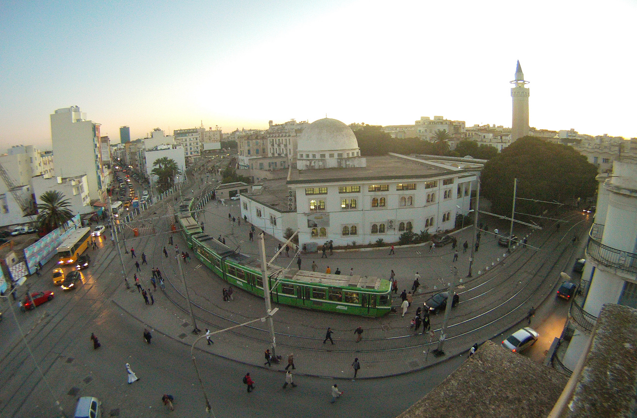 Al Fath Mosque in the center of Tunis, Tunisia